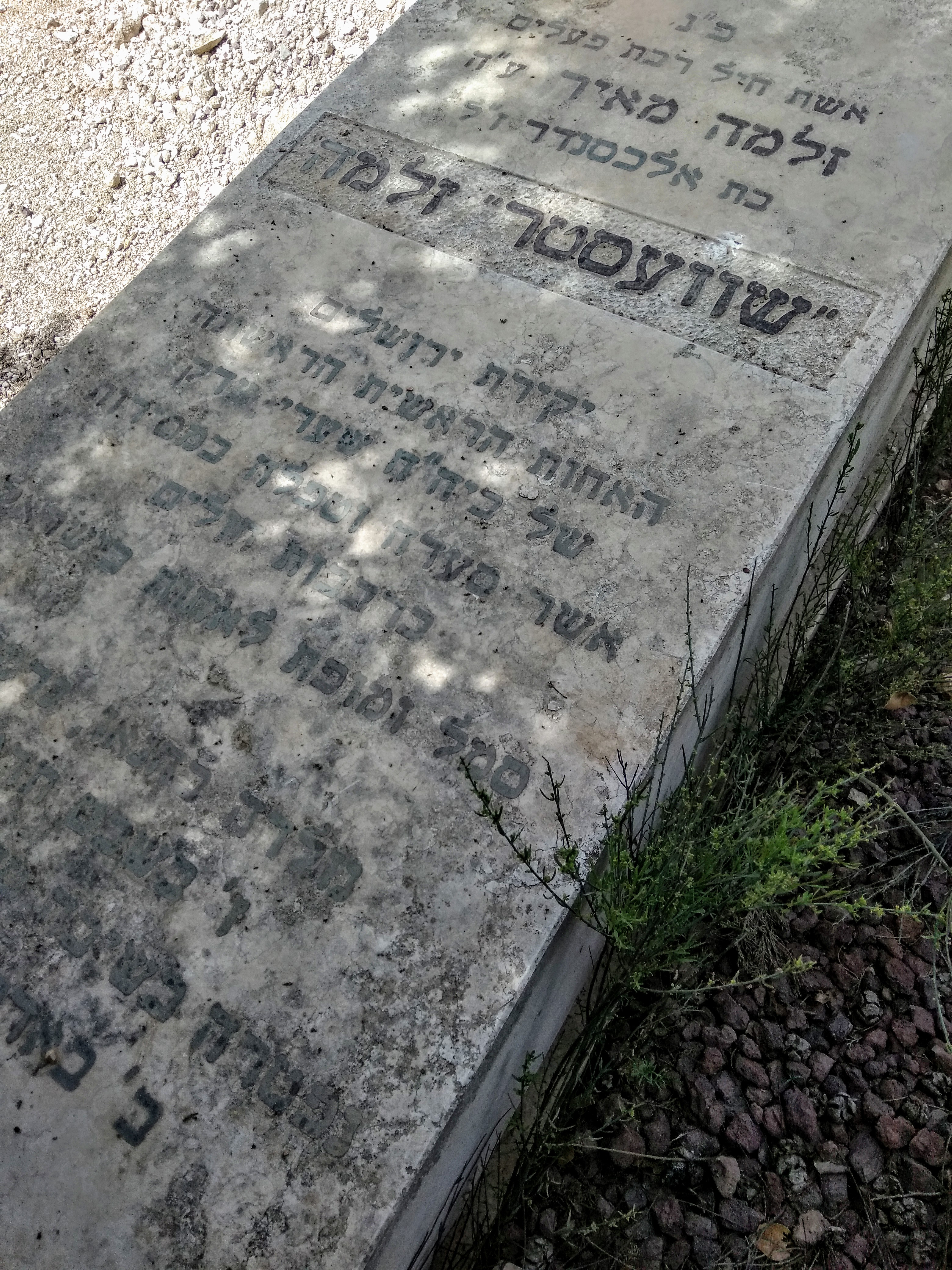 Grave of "Shwester Selma," legendary head nurse of Shaarei Zedek Hospital, Jerusalem. Buried in Har Hamenuhot, Givat Shaul cemetery, Jerusalem, Worthy of Jerusalem section